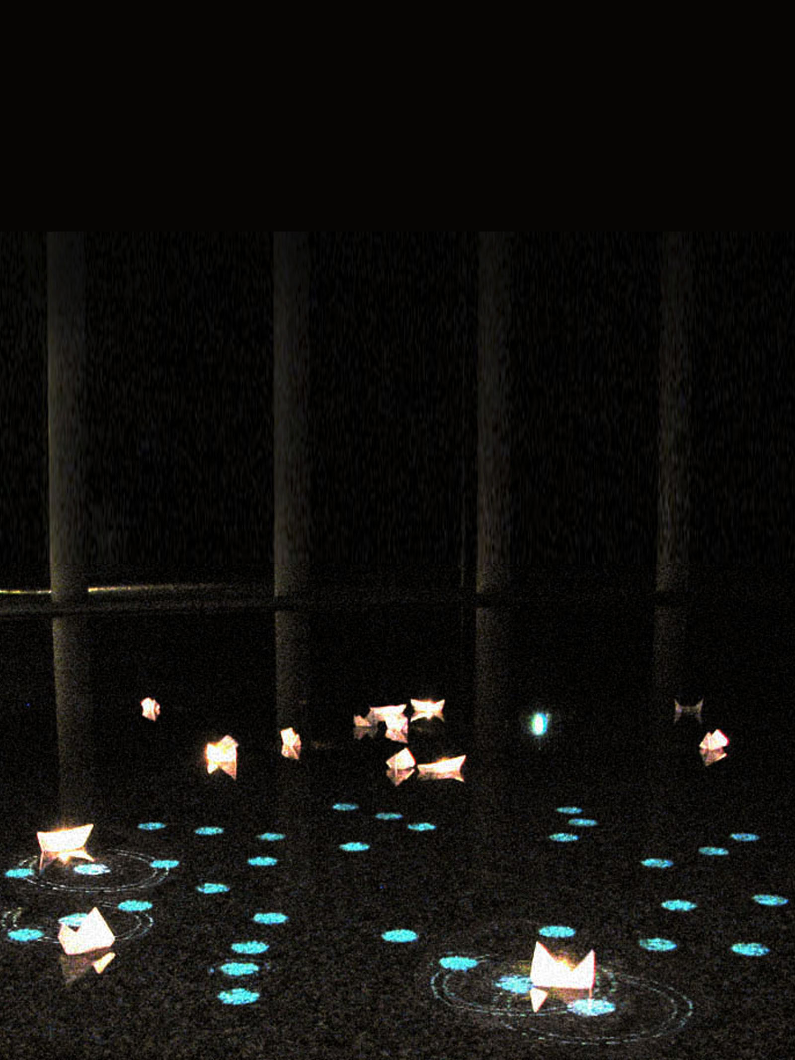 View of artwork 'Homage to Tadao Ando', Fabrica